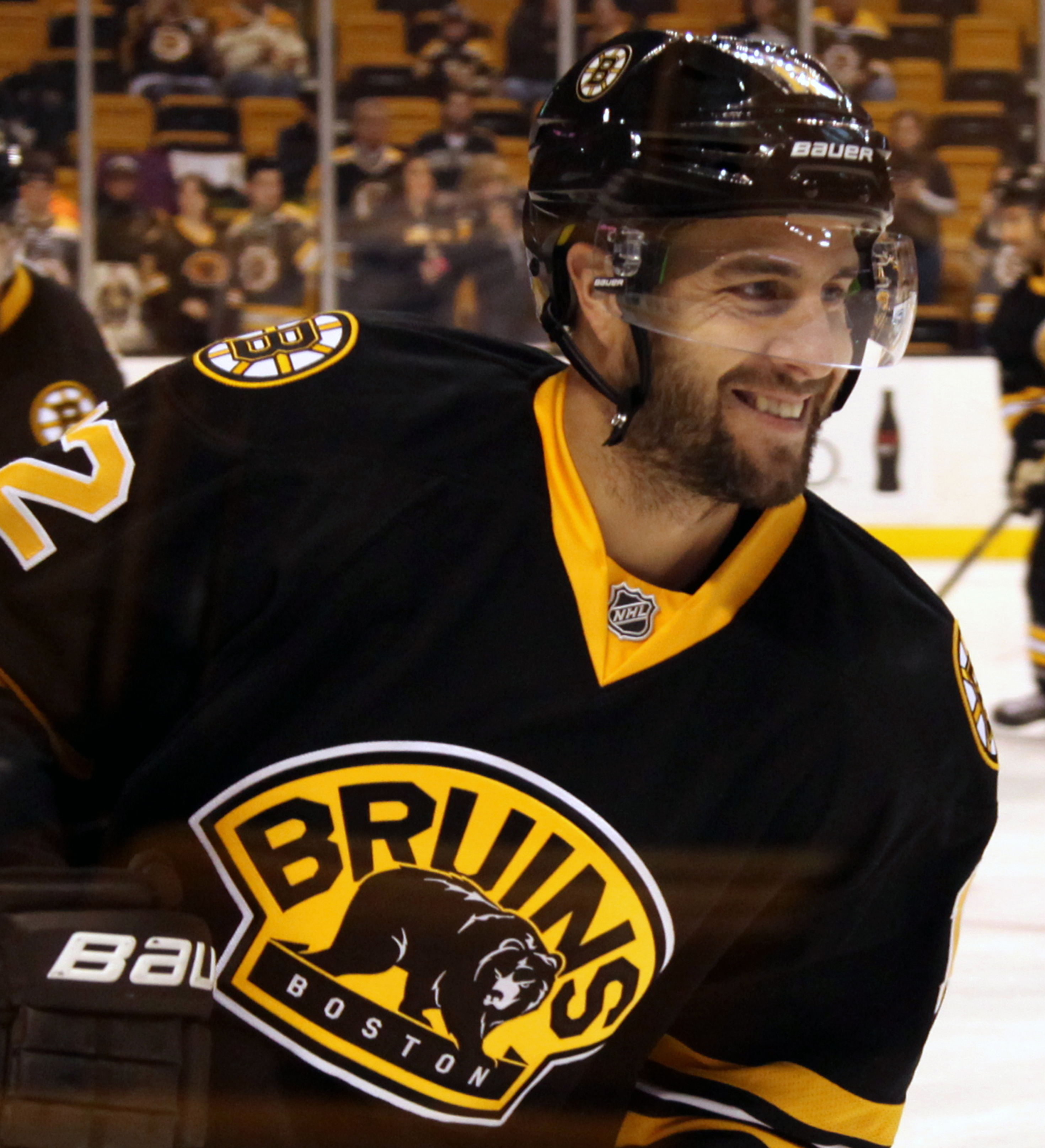 Gagne in October 2014.